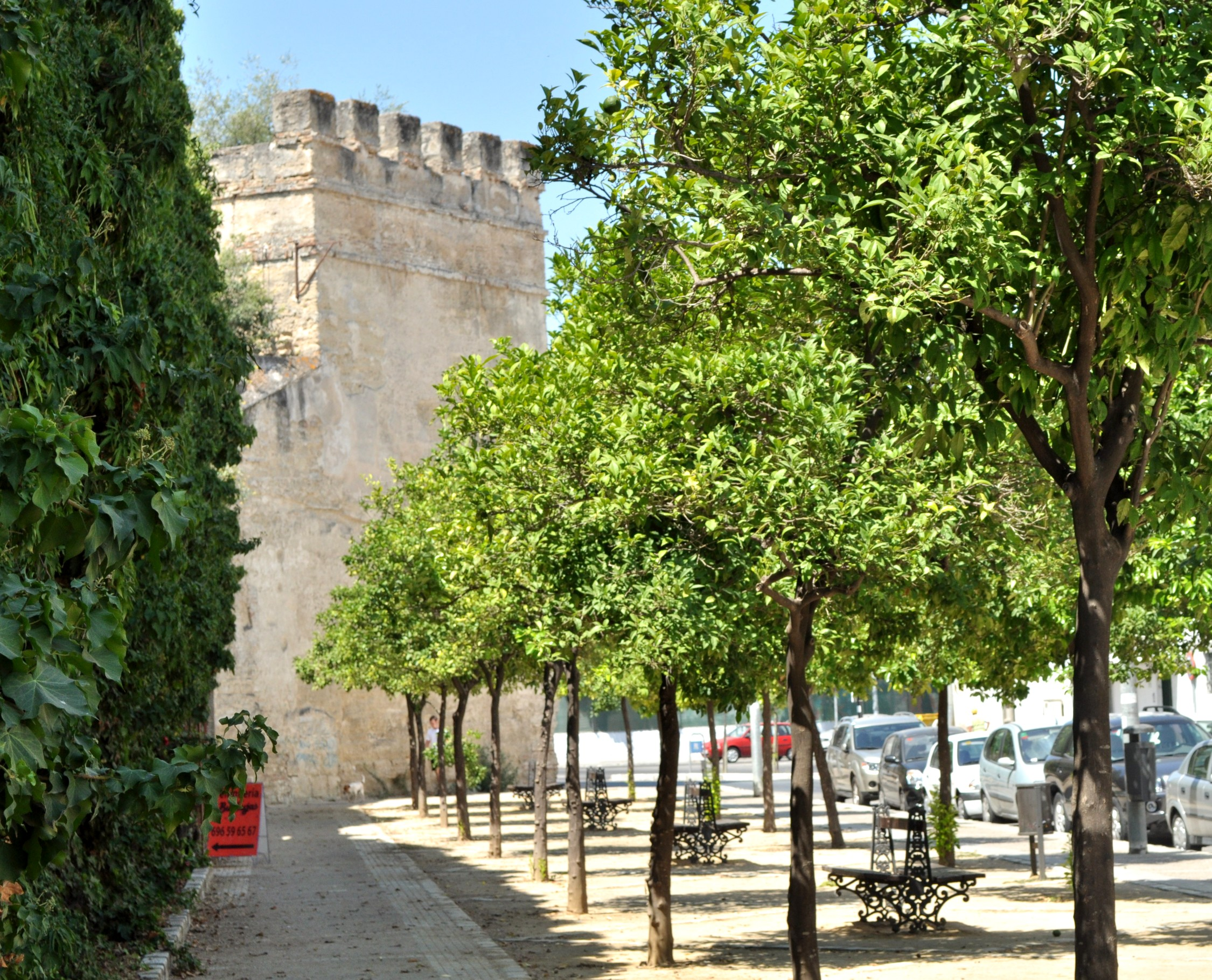 Fortified tower, Muro St. Jerez